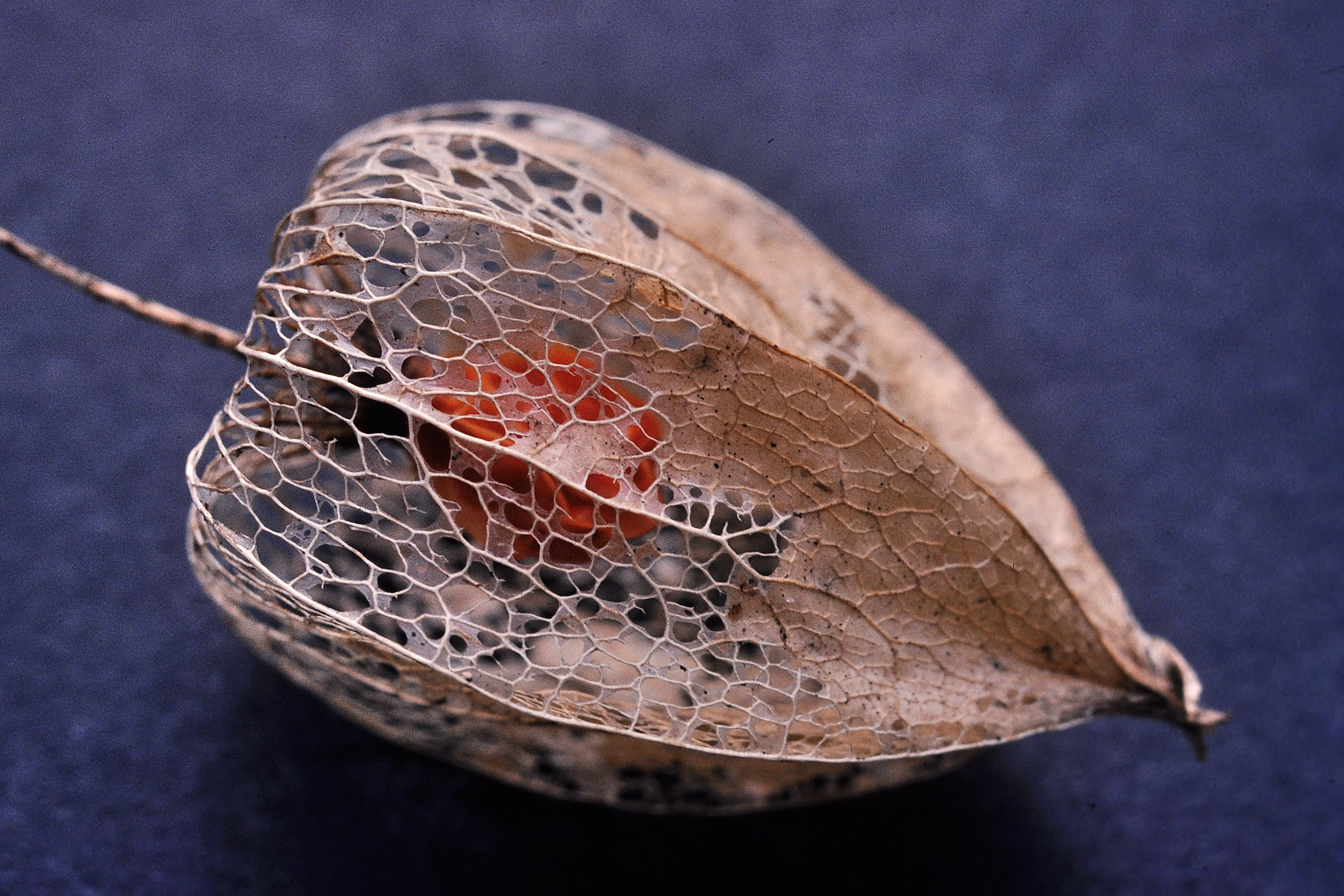 Chinese lantern, fruit